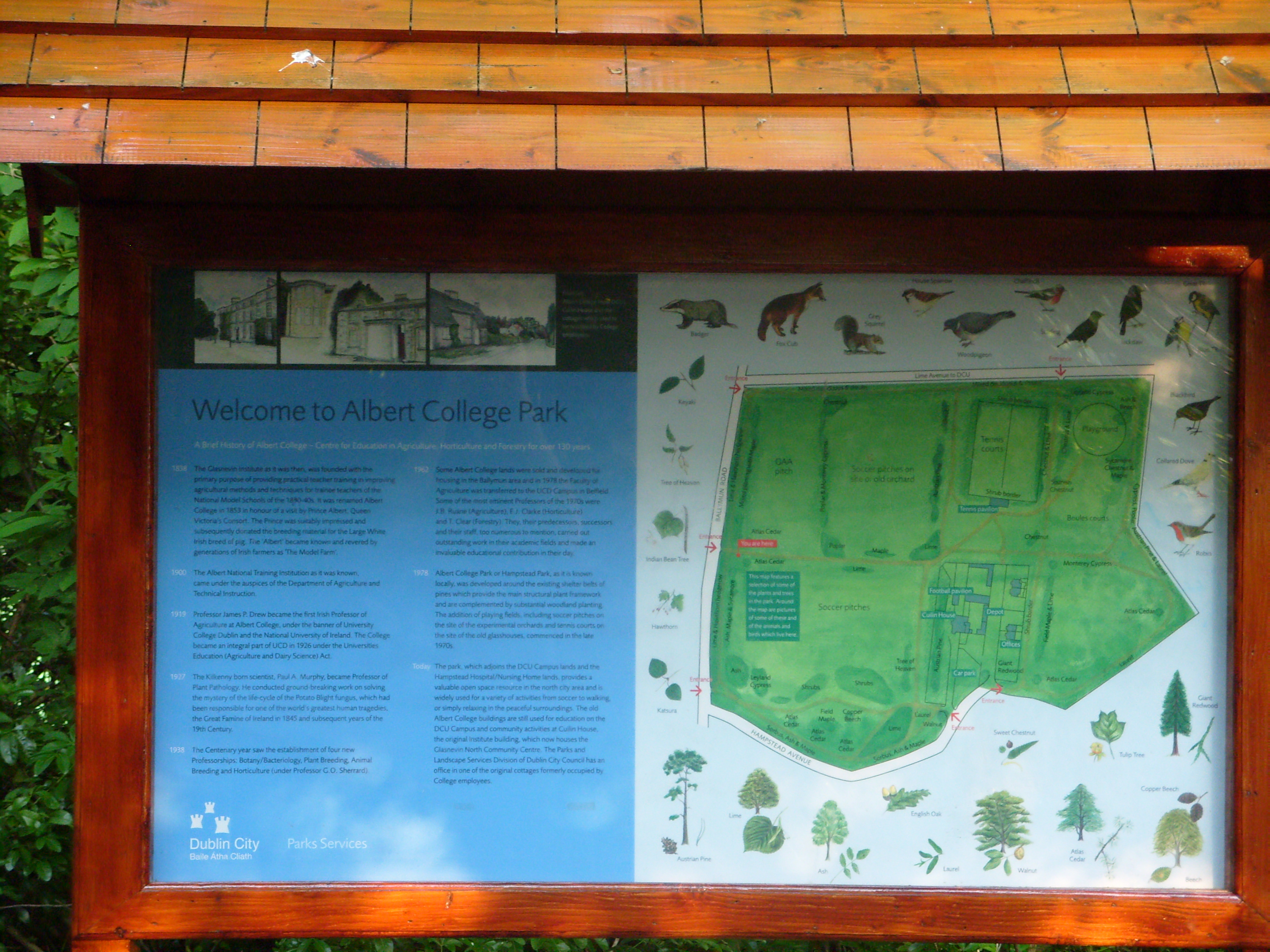 Photograph of information sign in Albert College Park with details about the Albert College. Photograph taken by Beta.